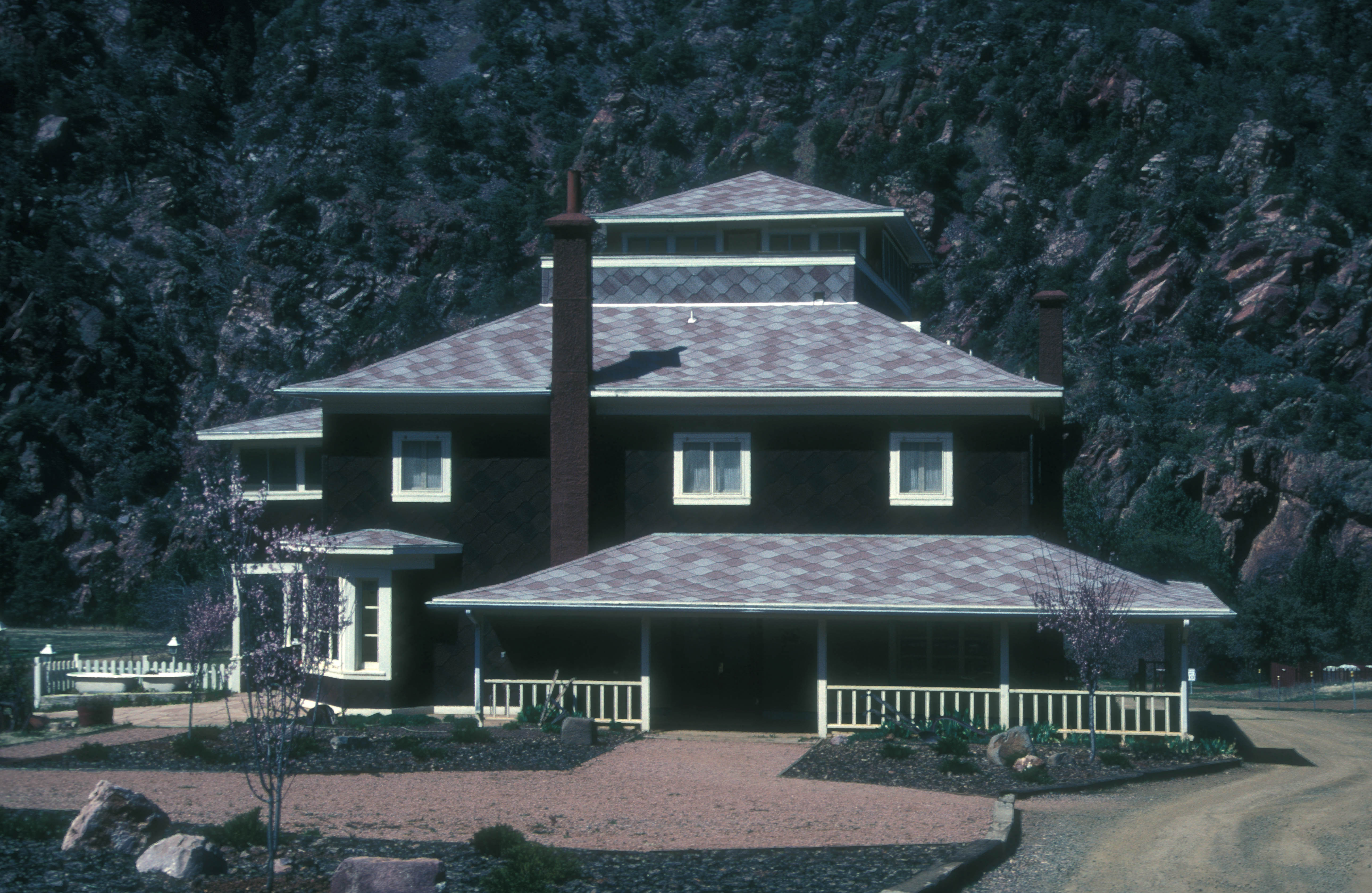 Historic lodge a Tonto Arch - formerly private but now state owned. Built by David Gowan, a Scotsman, who liked the area while hiding from the Apaches. His family lived here until 1948.